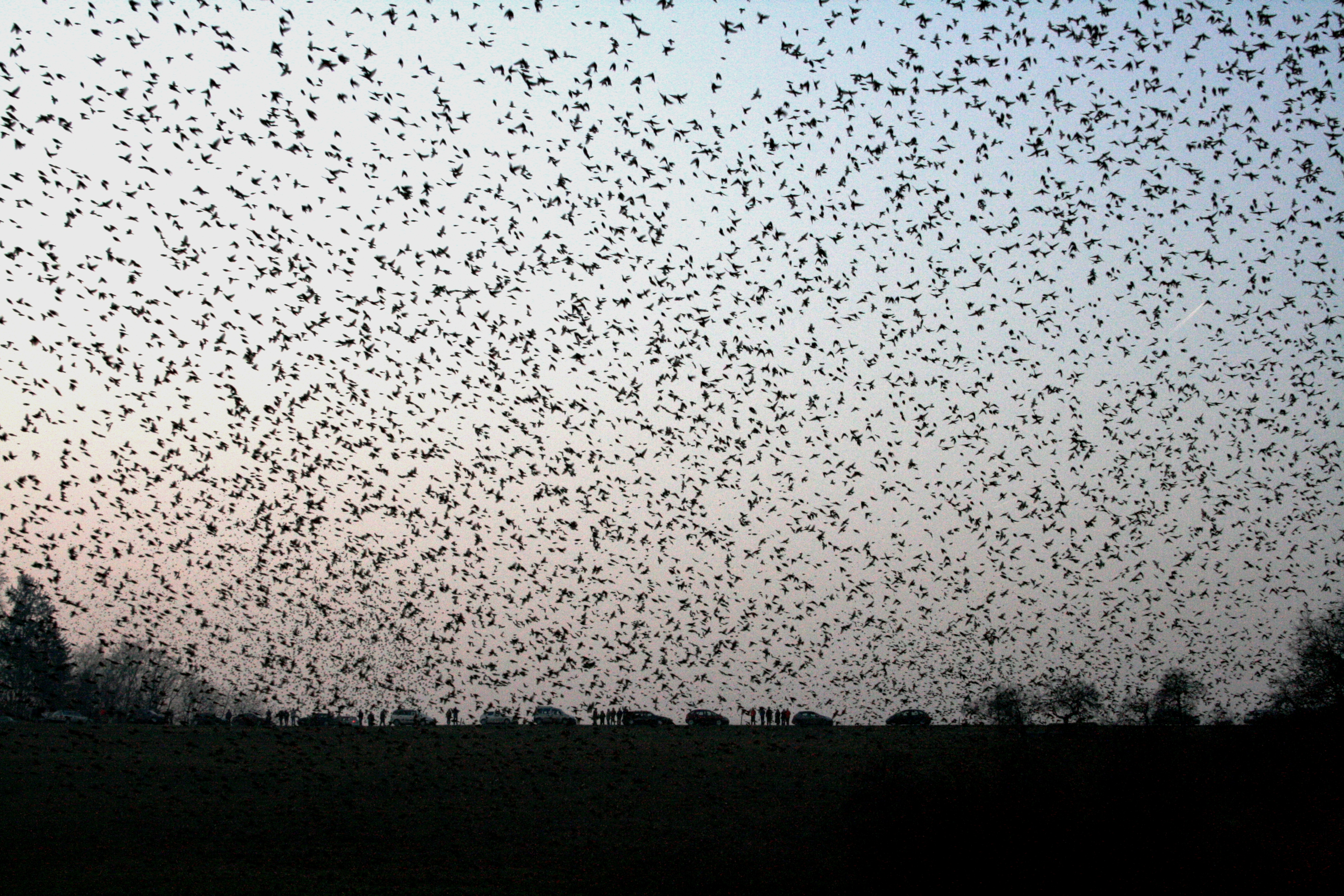 In January 2009 in Lödersdorf/Styria/Austria/Europe four million bramblings (Fringilla montifringilla) gathered together. - On this picture you can see a part of the covey, in the background are some birdwatchers